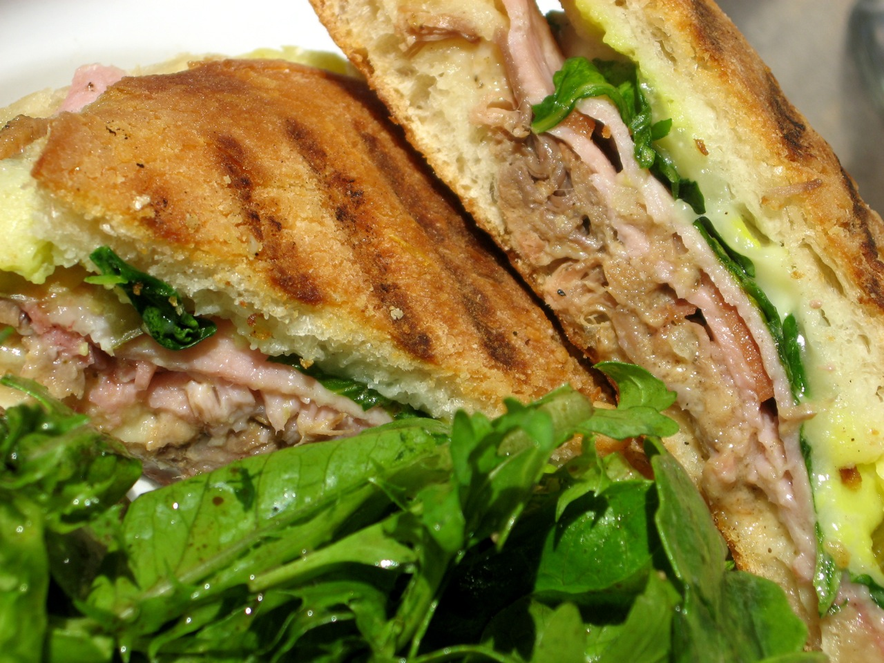 Roasted pulled pork and ham with manchego cheese, pickles, and roasted garlic mayo. The salad is a mere afterthought ...the sandwich is excellent though